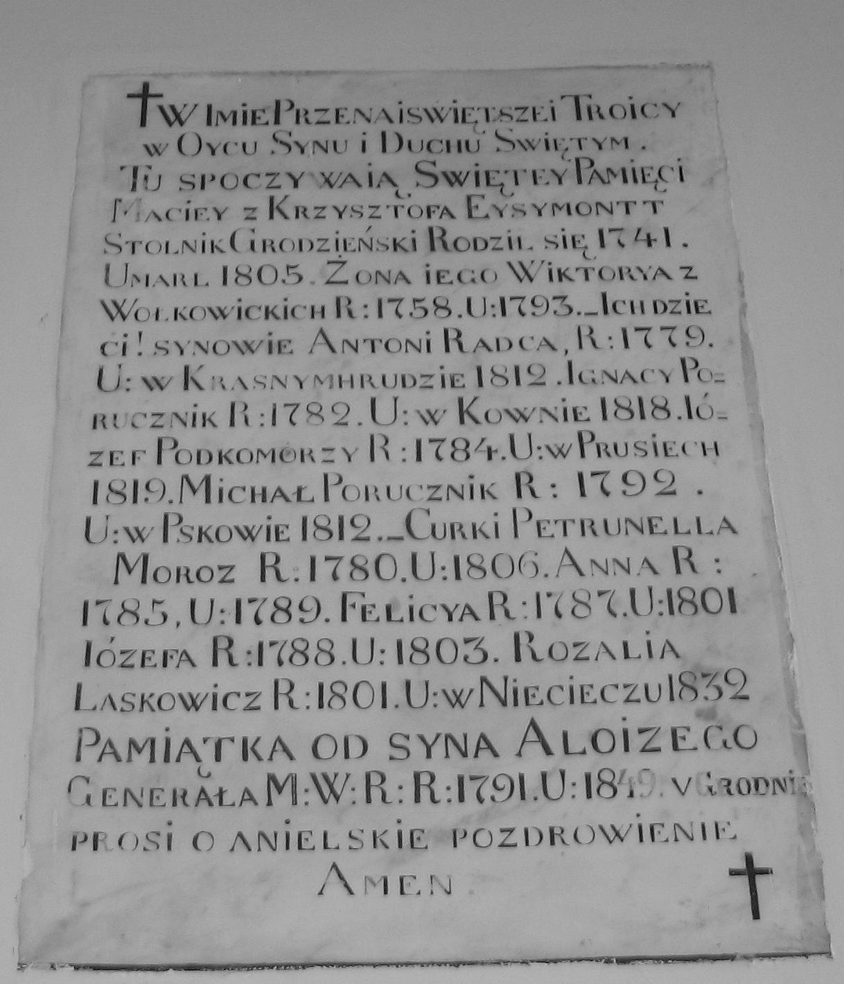 Votum Alojzego Eysymonta dla ojca